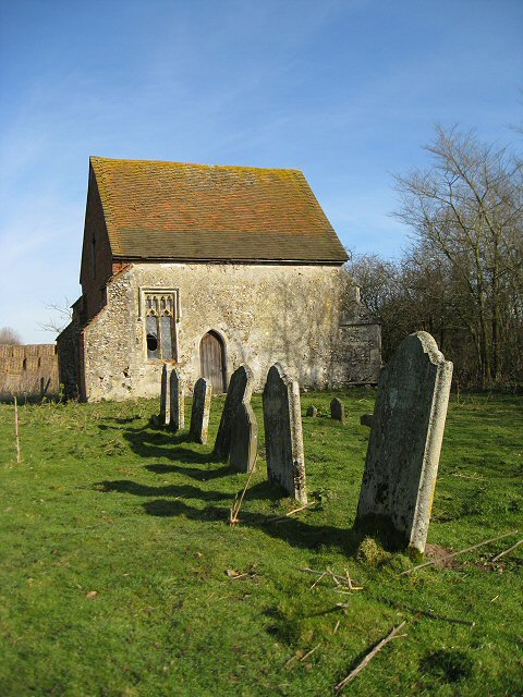 The chancel of the former St Mary's parish church, Braiseworth, Suffolk, seen from the south. It was retained as the mortuary chapel for the churchyard when the rest of the church was demolished in the 19th century.